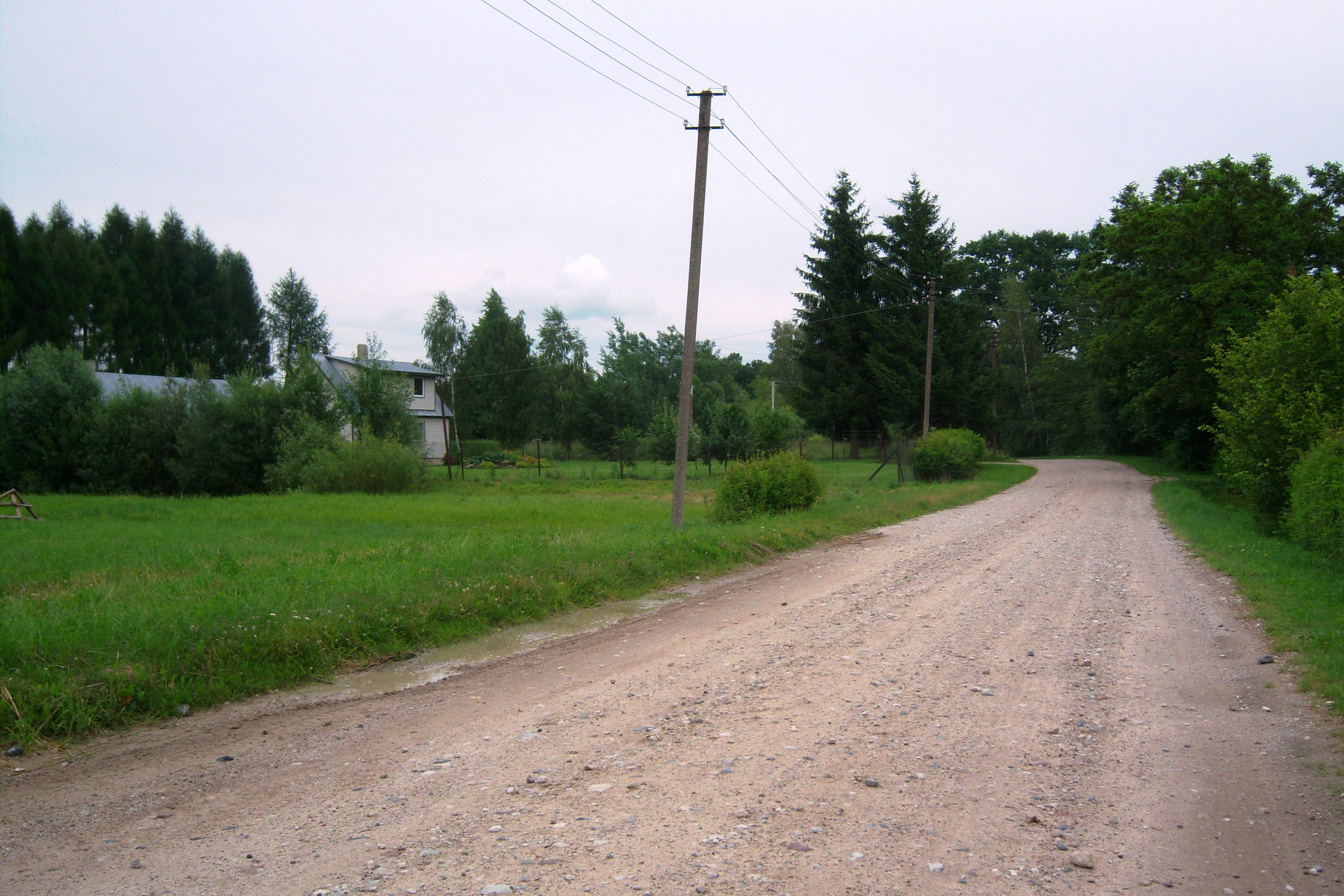 Rokų Miško Kelmyno village, Dubravos forest, Kaunas district. Lithuania